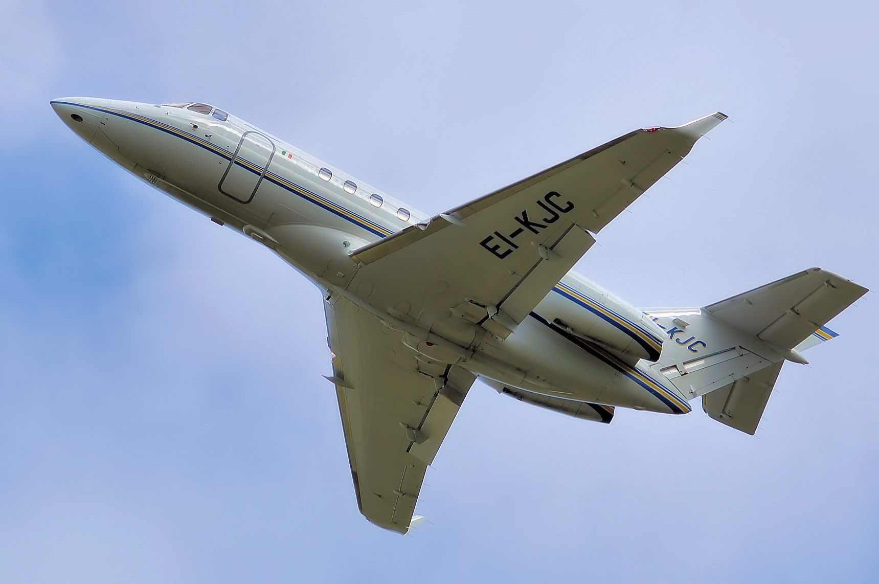 Raytheon Hawker 850XP (EI-KJC) takes off from Bristol International Airport, England. Vortilons can be seen below the wings’ leading edges.